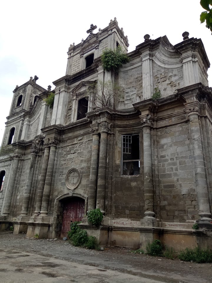 The oldest and the biggest Hispanic church in the entire province of Tarlac.